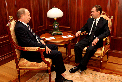 THE KREMLIN, MOSCOW. With Prime Minister Vladimir Putin.